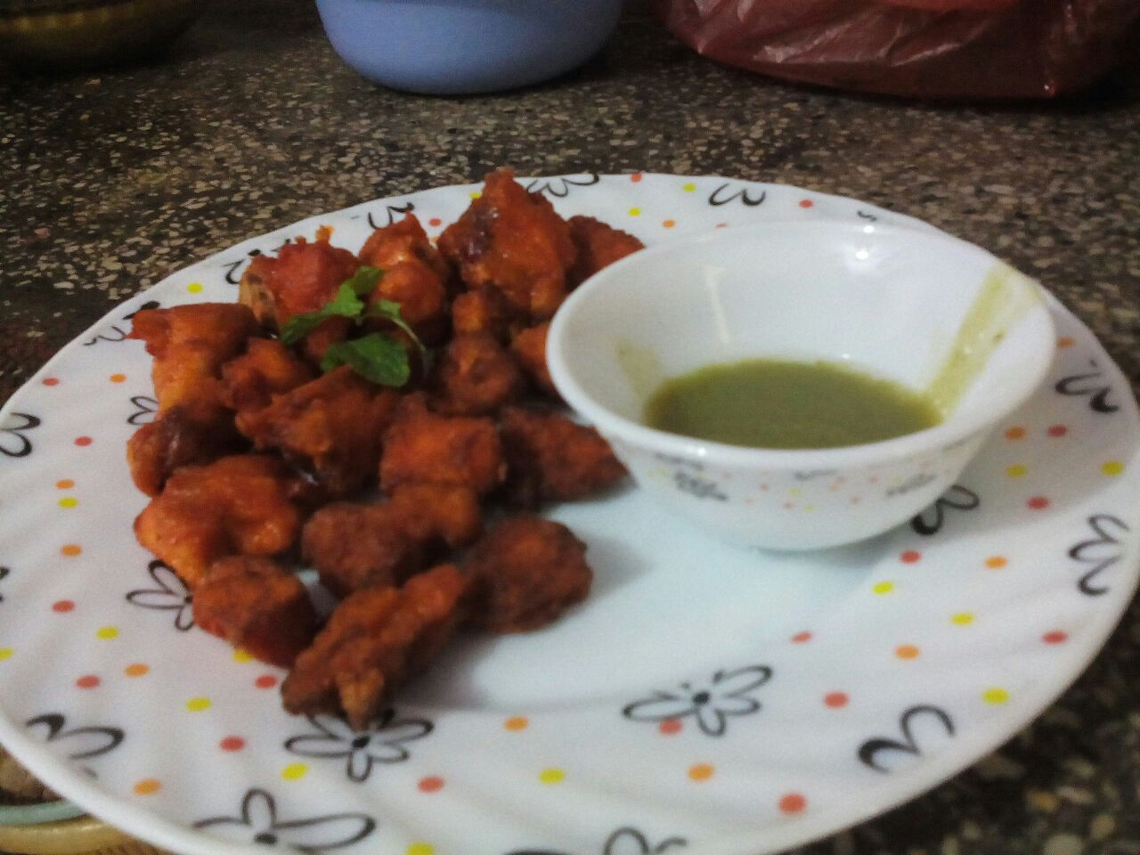 chicken nugets by Fatima